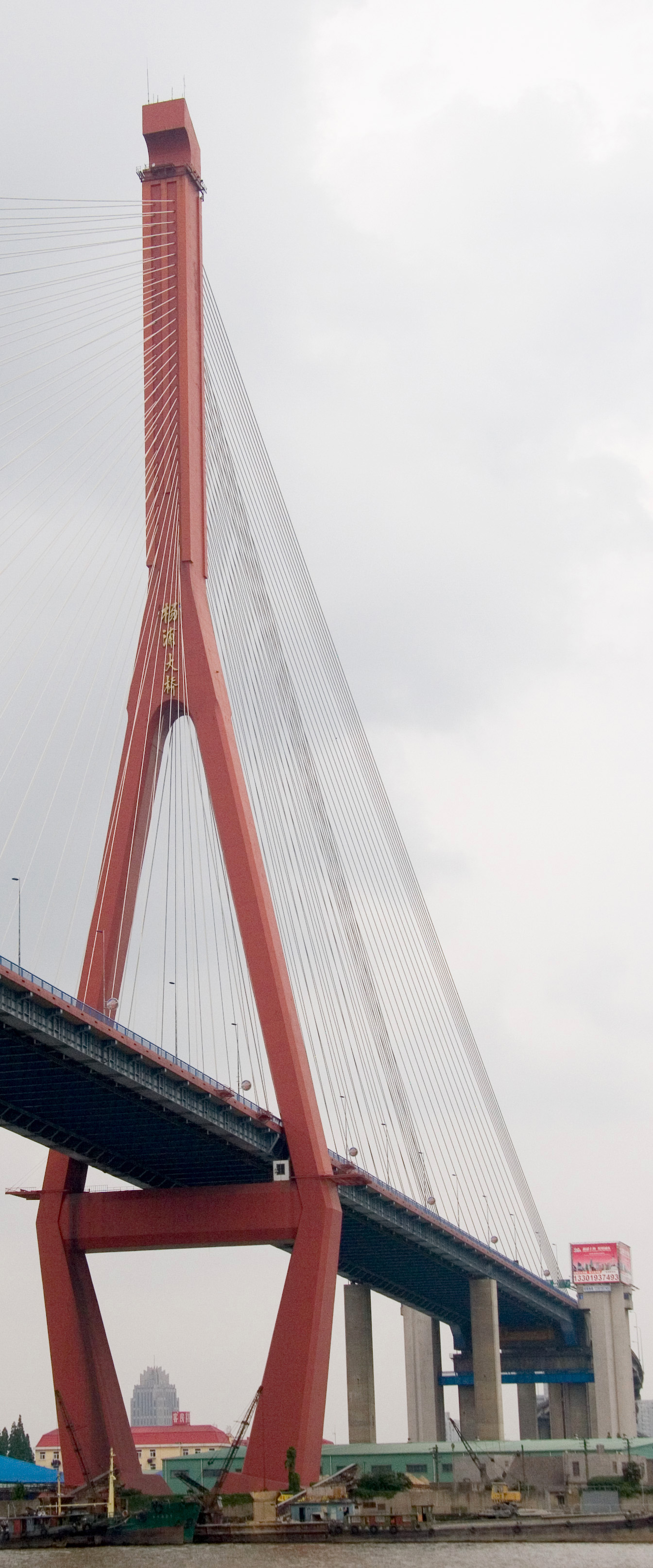 East pylon, Yangpu Bridge, Shanghai, China